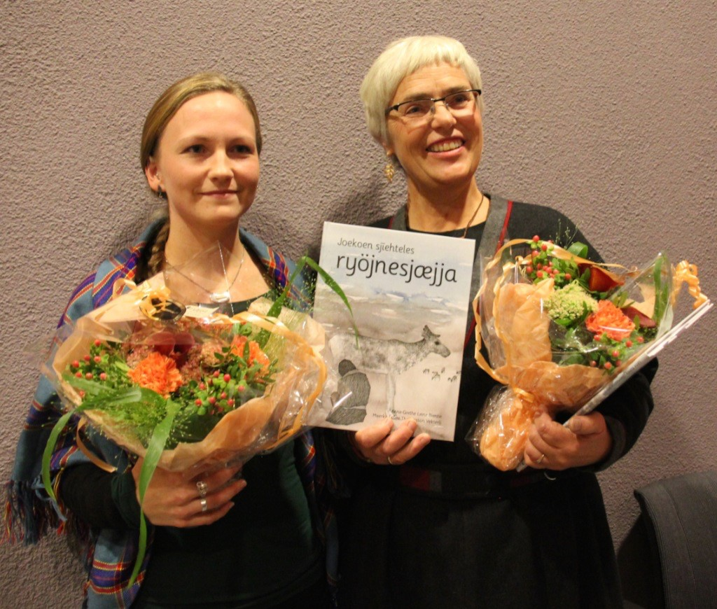 Illustrator Meerke Laimi Thomasson Vekterli and author Anne-Grethe Leine Bientie at the launch of the book "Joekoen sjïehteles ryöjnesjæjja" during the litter tour weekend Raasten rastah in Røros, September 2014.